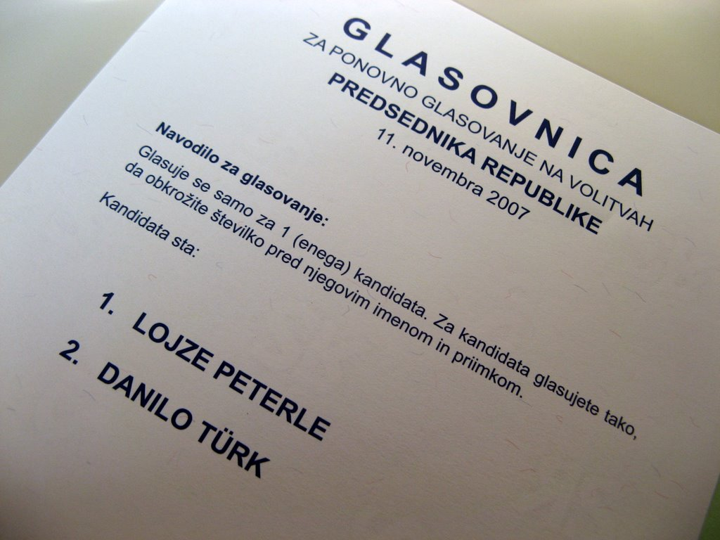 Ballot for 2007 Slovenian presidential elections, 2nd round